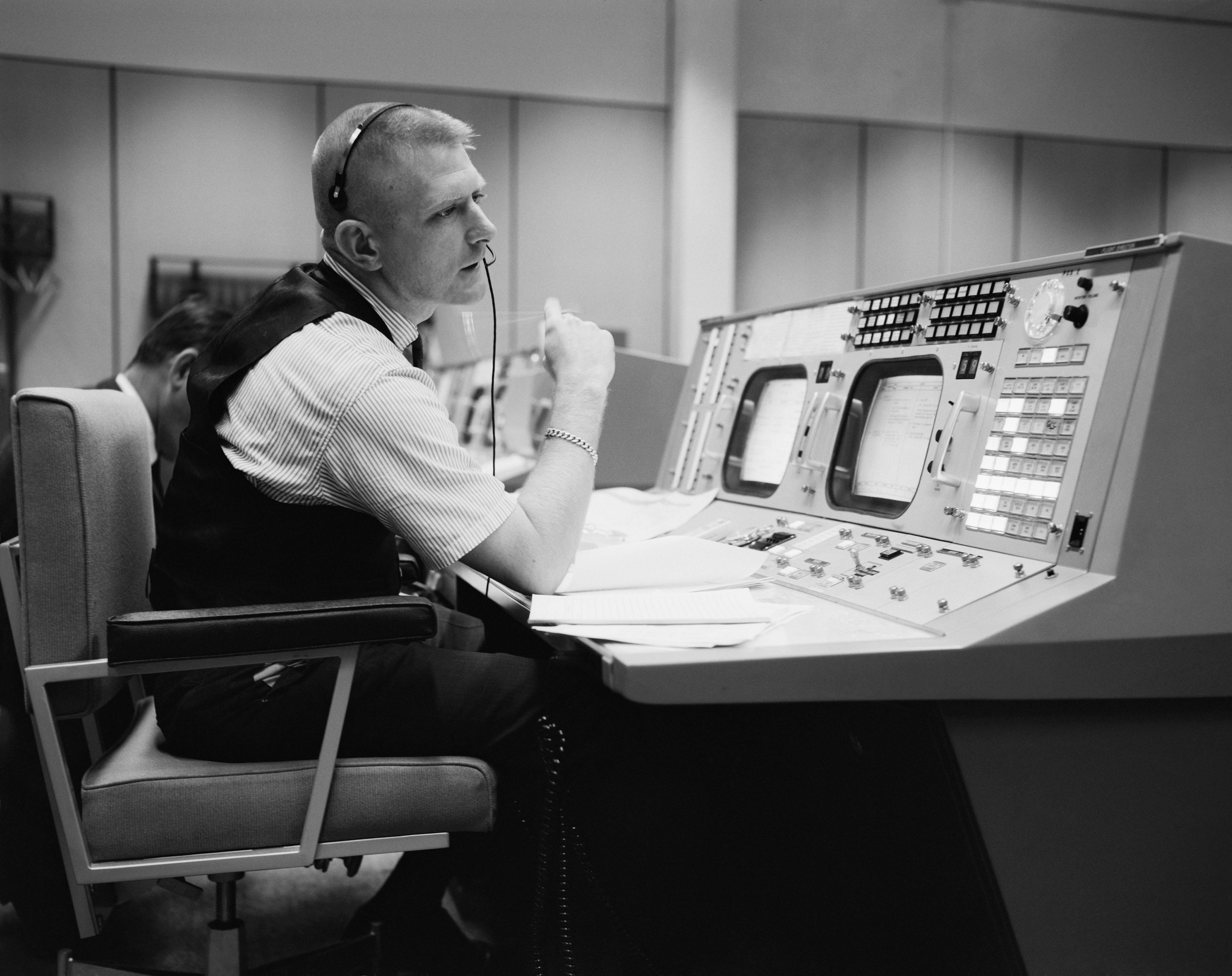 Eugene F. Kranz, flight director, is shown at his console on May 30, 1965, in the Mission Operations Control Room in the Mission Control Center at Houston during a Gemini-Titan IV simulation to prepare for the four-day, 62-orbit flight. (NASA Photo S-65-22203.)